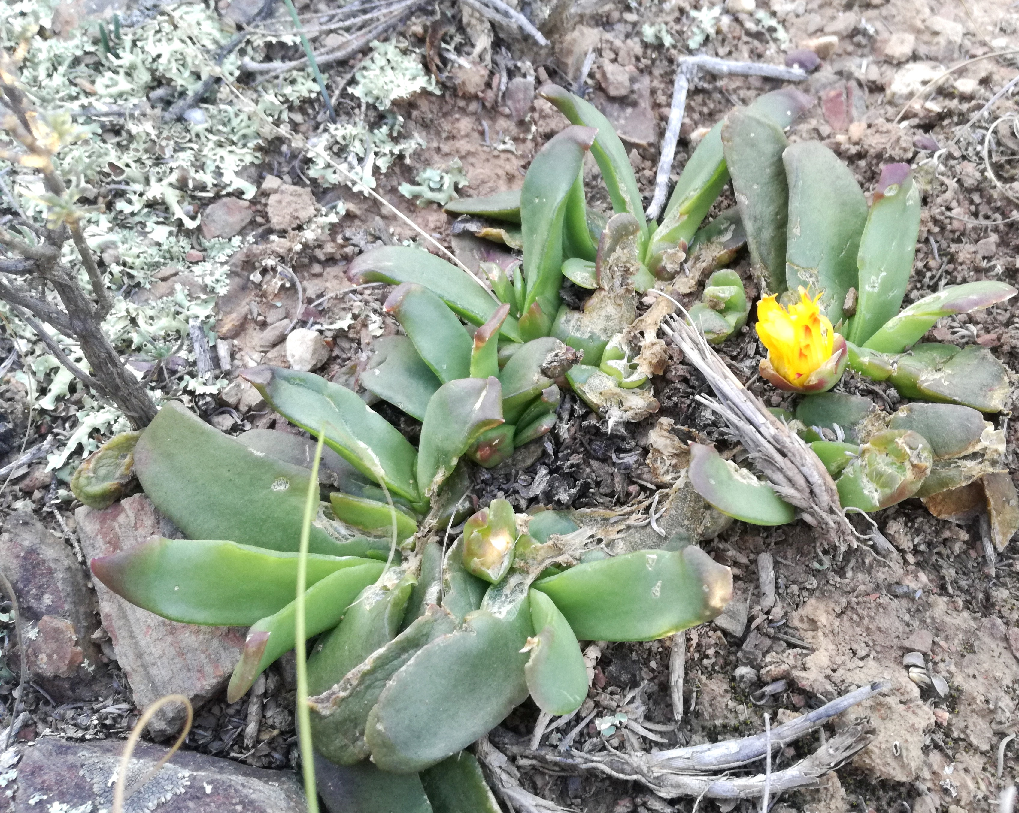 Glottiphyllum depressum - Bonnievale